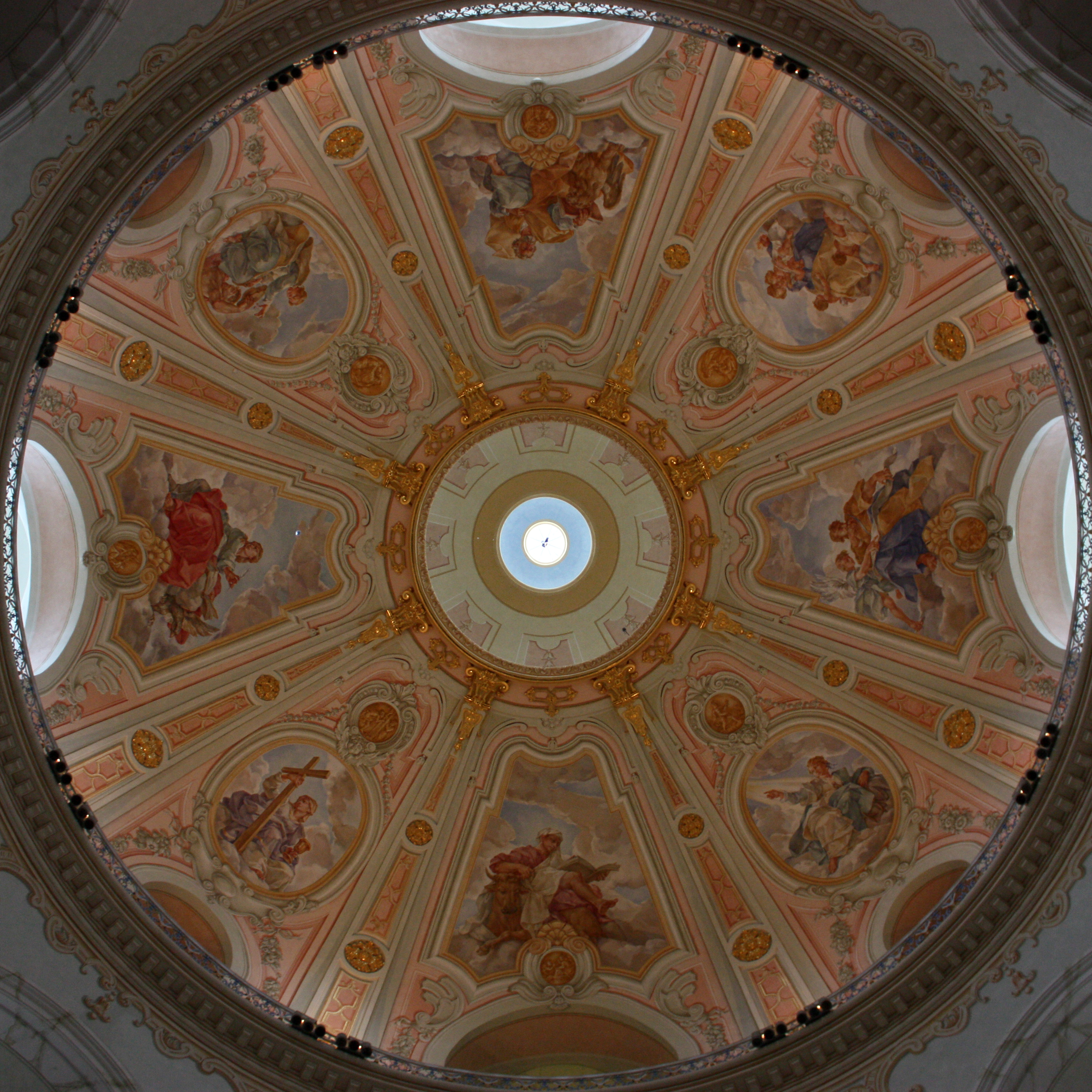 Drawings on the roof of the Dresden Frauenkirche.